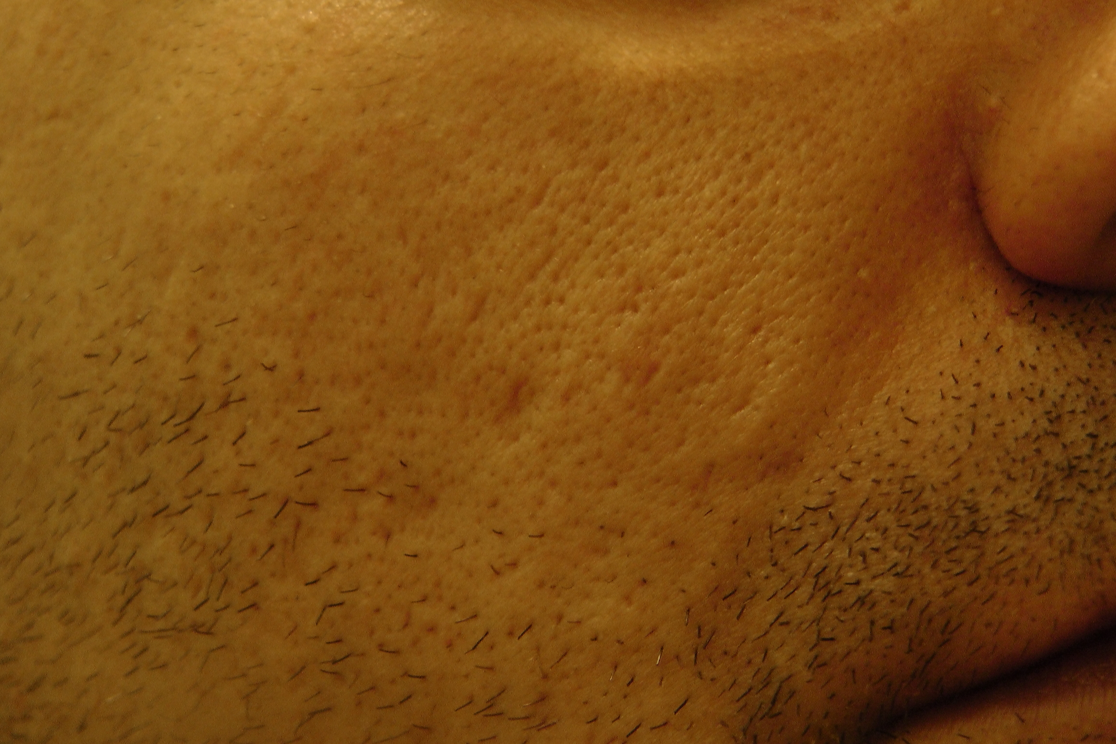 "Orange Skin" effected by Acne